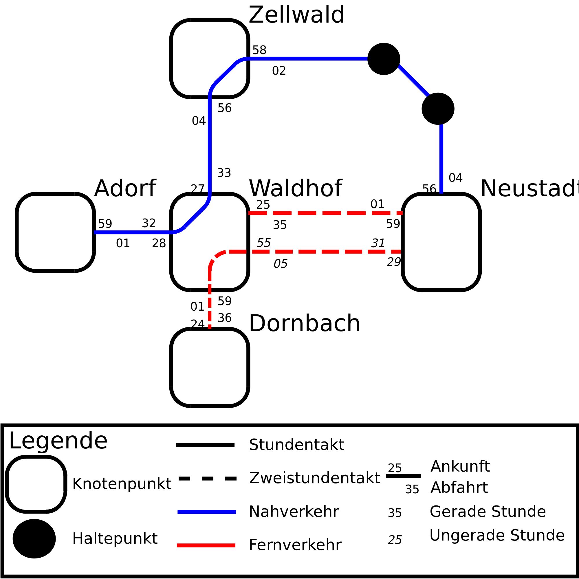 An example of 'netzgrafik'